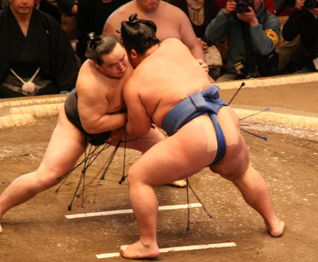 Sumo Wrestler Asashōryū fighting against Kotoshogiku at the January Tournament 2008